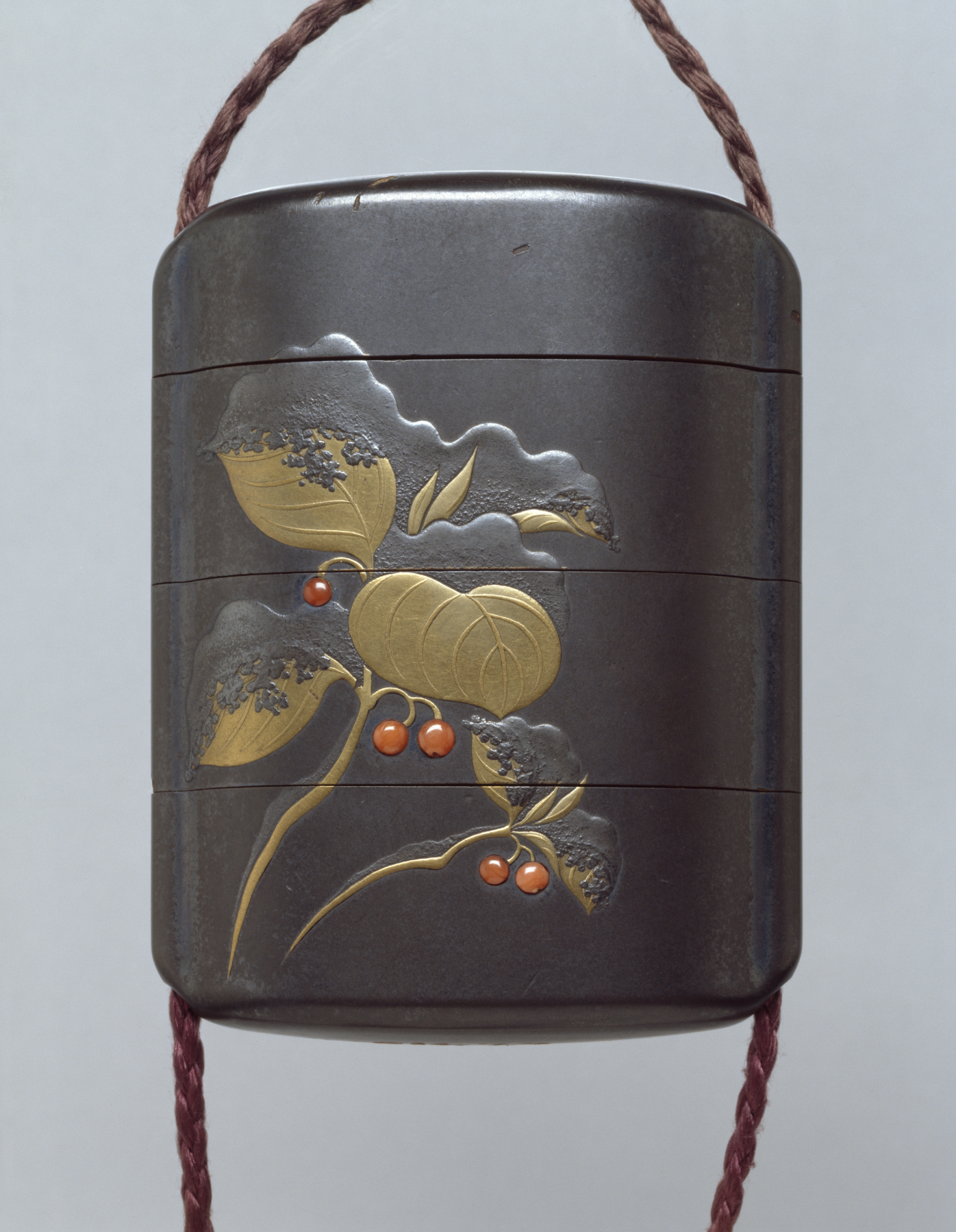 A standard (oblong) grey lacquer three case inro. On one side a snow-covered "yabukoji" in "hiramakie" in gold with berries in applied carnelain on a grey lacquer round. On the other side a pine branch with a pine cone in gold. Inscribed in gold near the pine tree and a red seal. Inscribed on the bottom of the lower case with the inro artist's name. The interior of red lacquer and "fundame." The cord channels are external. Together with a carved ivory netsuke seal of a "shishi" on a ball all on a rectangular platform.